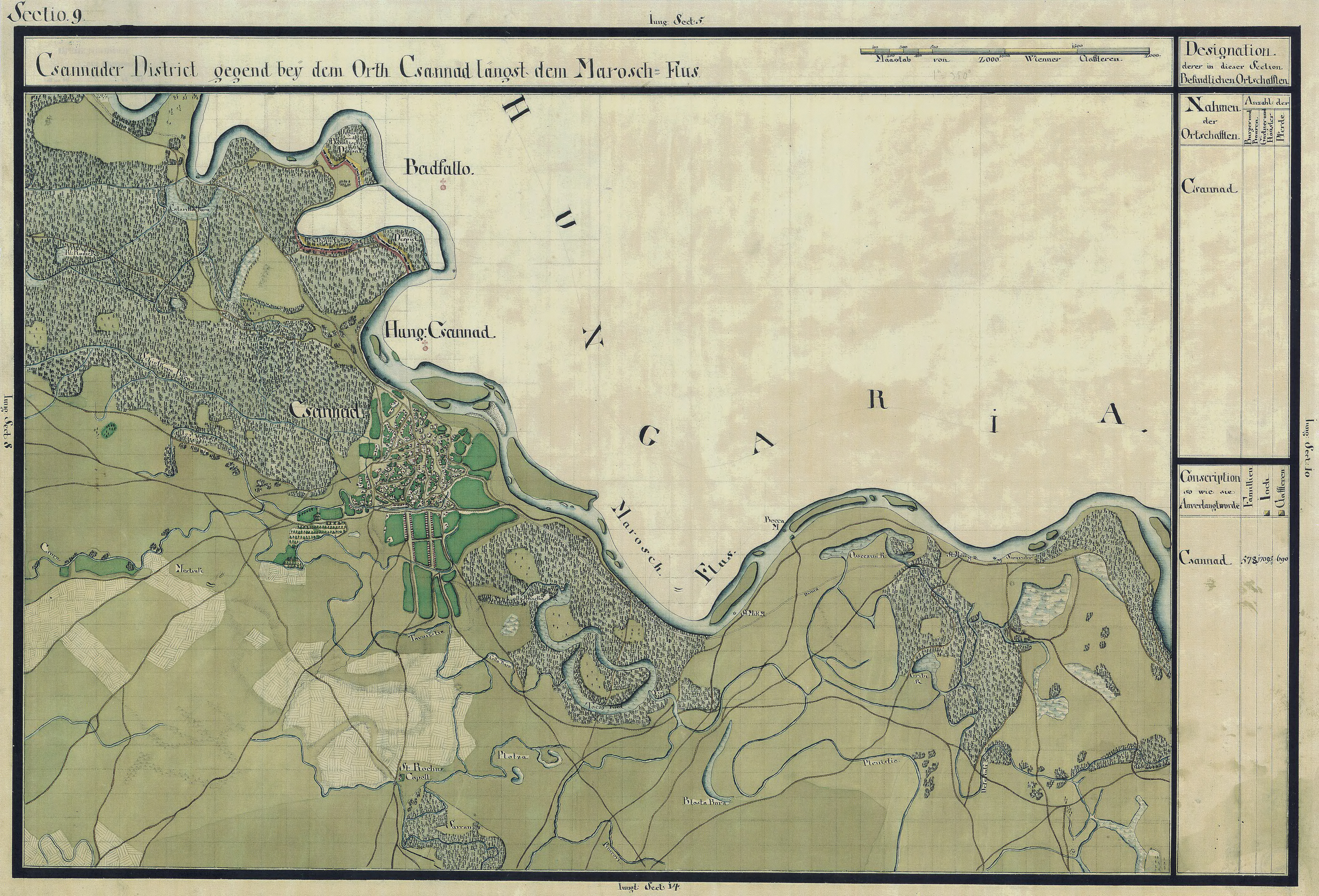 The Banat region in the cadastral maps: Josephinische Landesaufnahme, 1769-72. Josephinische Landaufnahme pg009